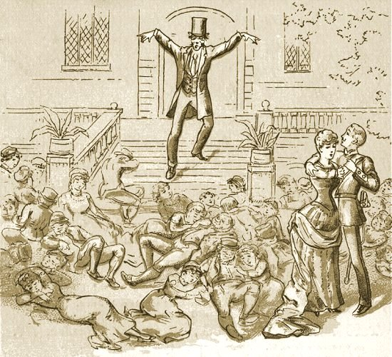 Picture from 1884 The Sorcerer program.